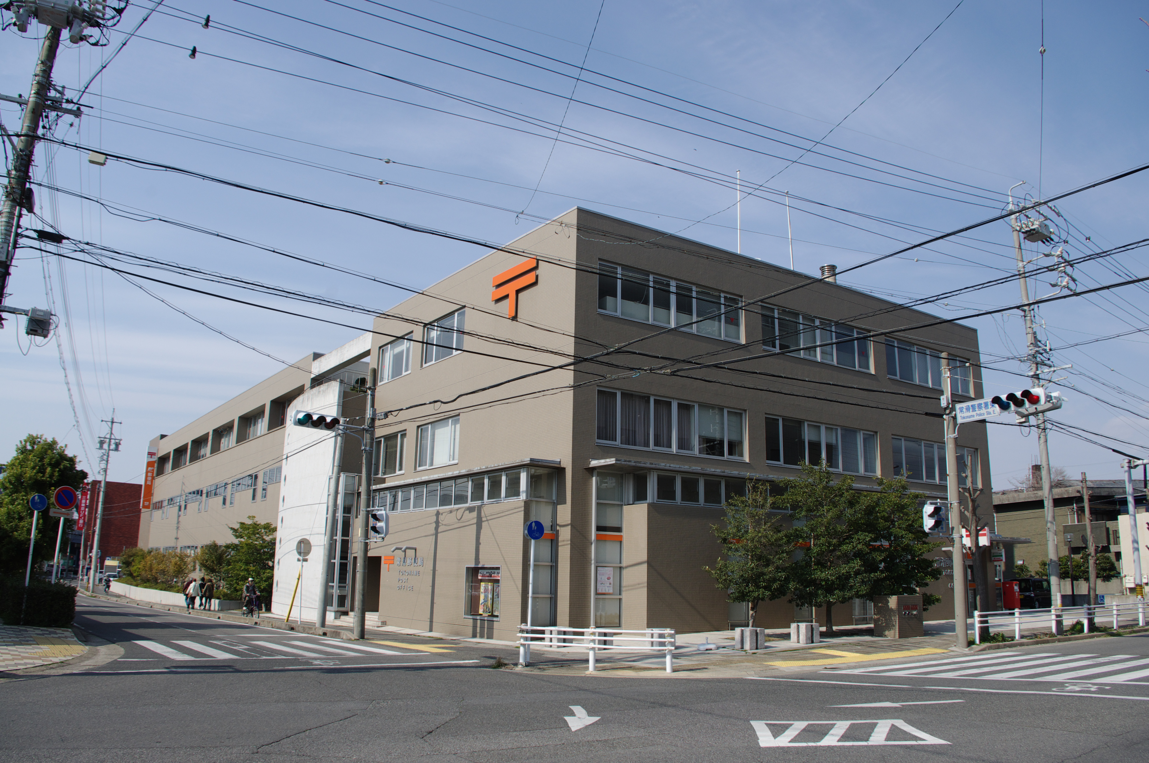 Tokoname Post Office in Tokoname, Aichi, Japan